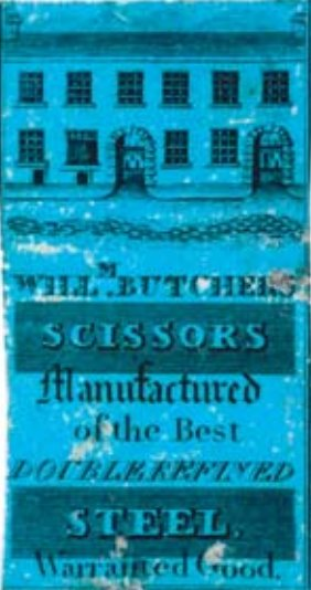 Label advertising William Butchers' scissors, showing the Eyre Lane frontage of the works at the time.